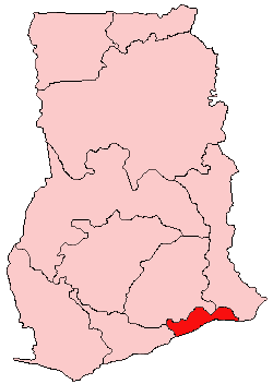 Map of Ghana showing Greater Accra Region; created with the GIMP. Made by User:Acntx.